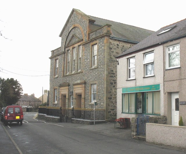 Capel Bethel Chapel It was this Congregational Chapel which gave the village its name.